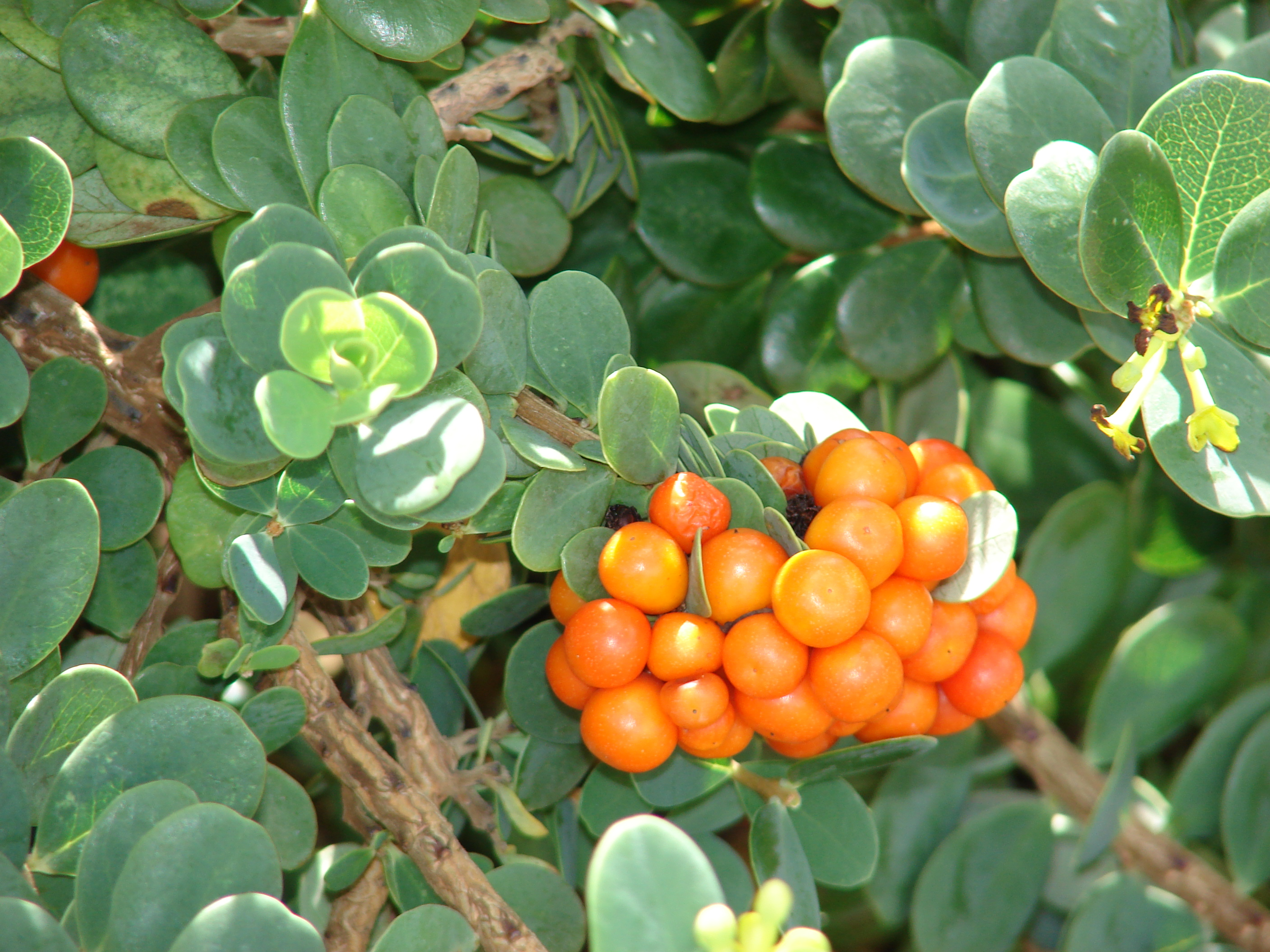 Wikstroemia uva-ursi (fruit). Location: Maui, Kahana